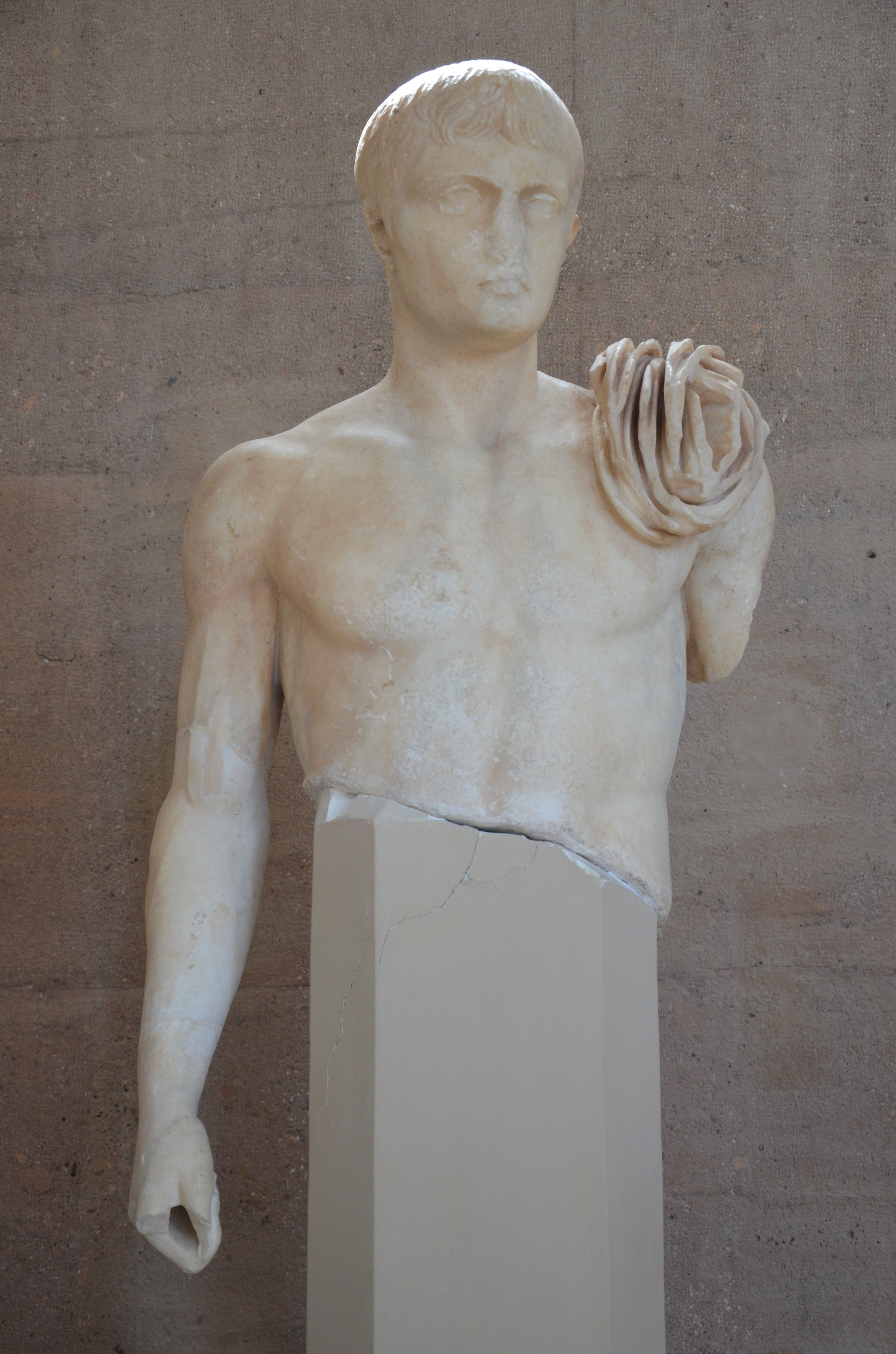 Statue of Lucius Caesar, grandson of Augustus, from the Julian Basilica, 17 BC – 2 AD, Archaeological Museum of Ancient Corinth, Greece